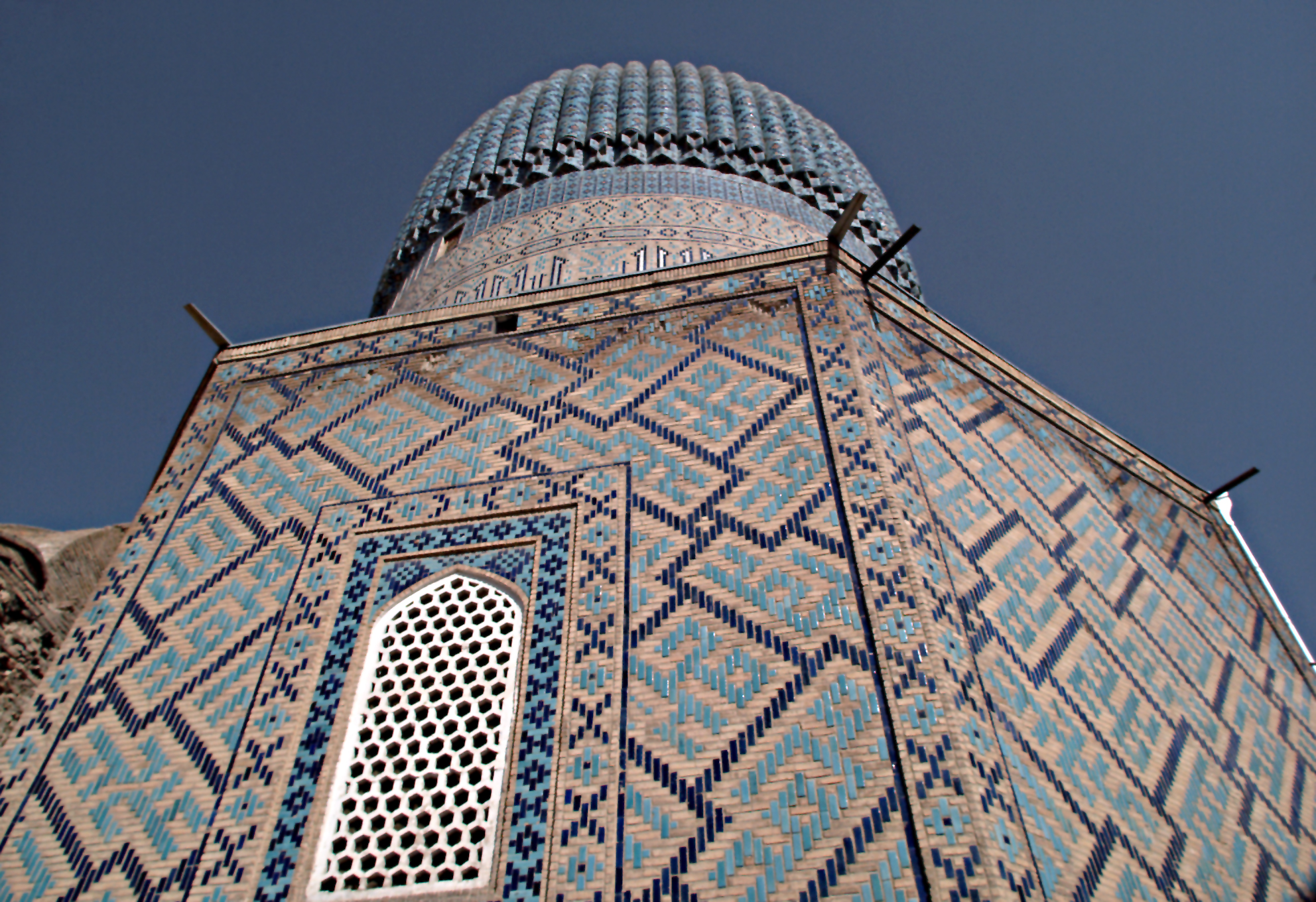 Closeup of Gur-i Amir mausoleum in Samarkand. Please note the octogonal body with simple mosaics and the Muqarnas at the change over from tambour to the dome.